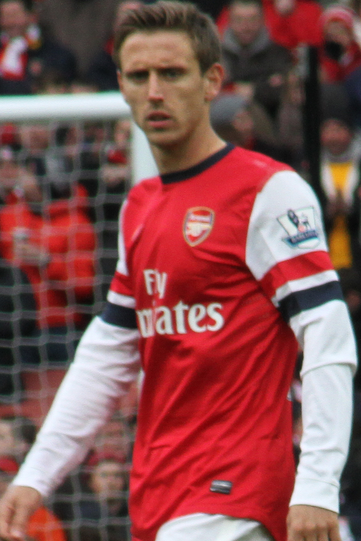 Nacho Monreal of Arsenal, February 2013